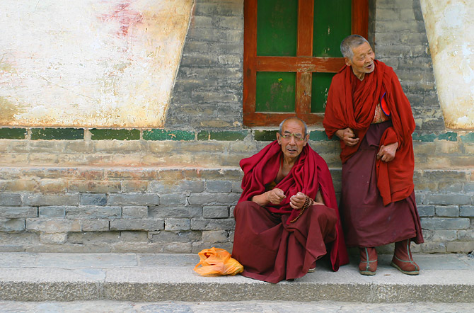 Monks at Ta'er Monastery (Kumbum Monastery), Huangzhong County, near Xining, Qinghai, China